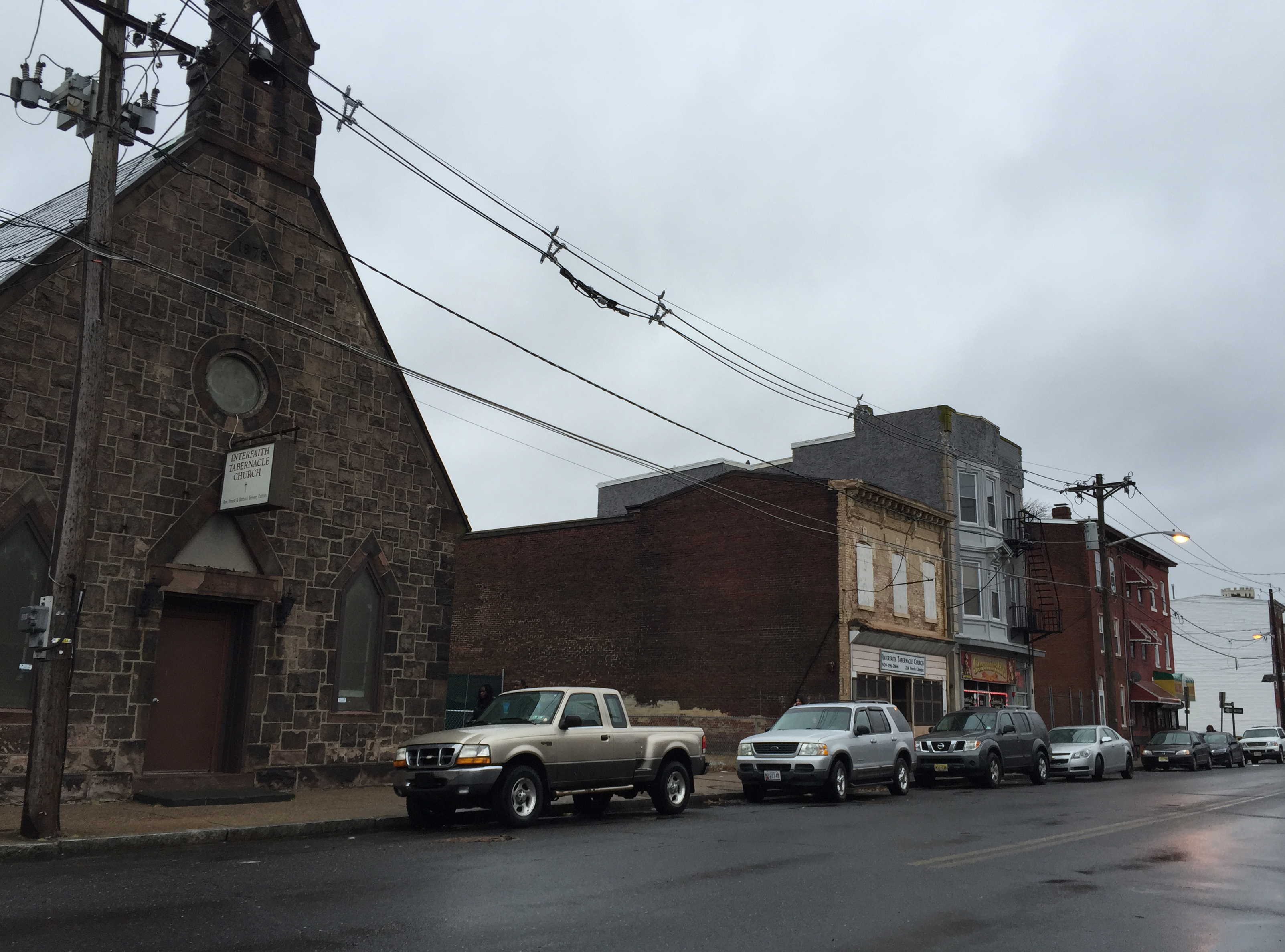 Buildings along North Clinton Avenue near the intersection with Sheridan Avenue in the Coalport/North Clinton section of Trenton, New Jersey